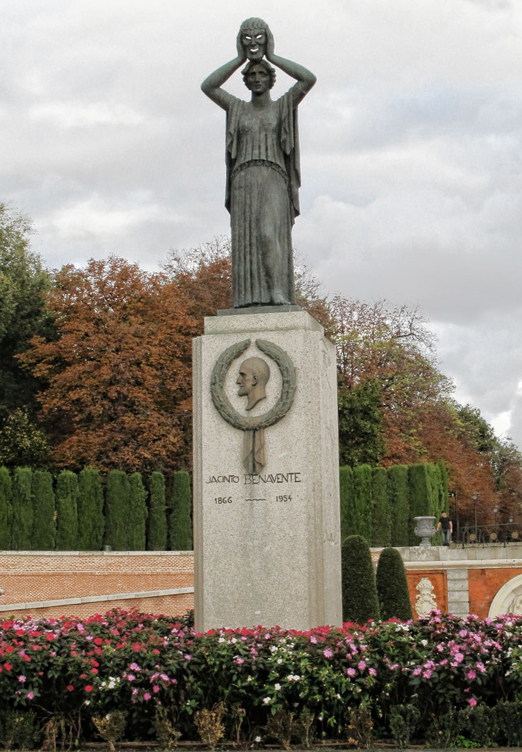 This is an image of the famous Spanish dramatist Jacinto Benavente located inside Retiro Park in Madrid, Spain